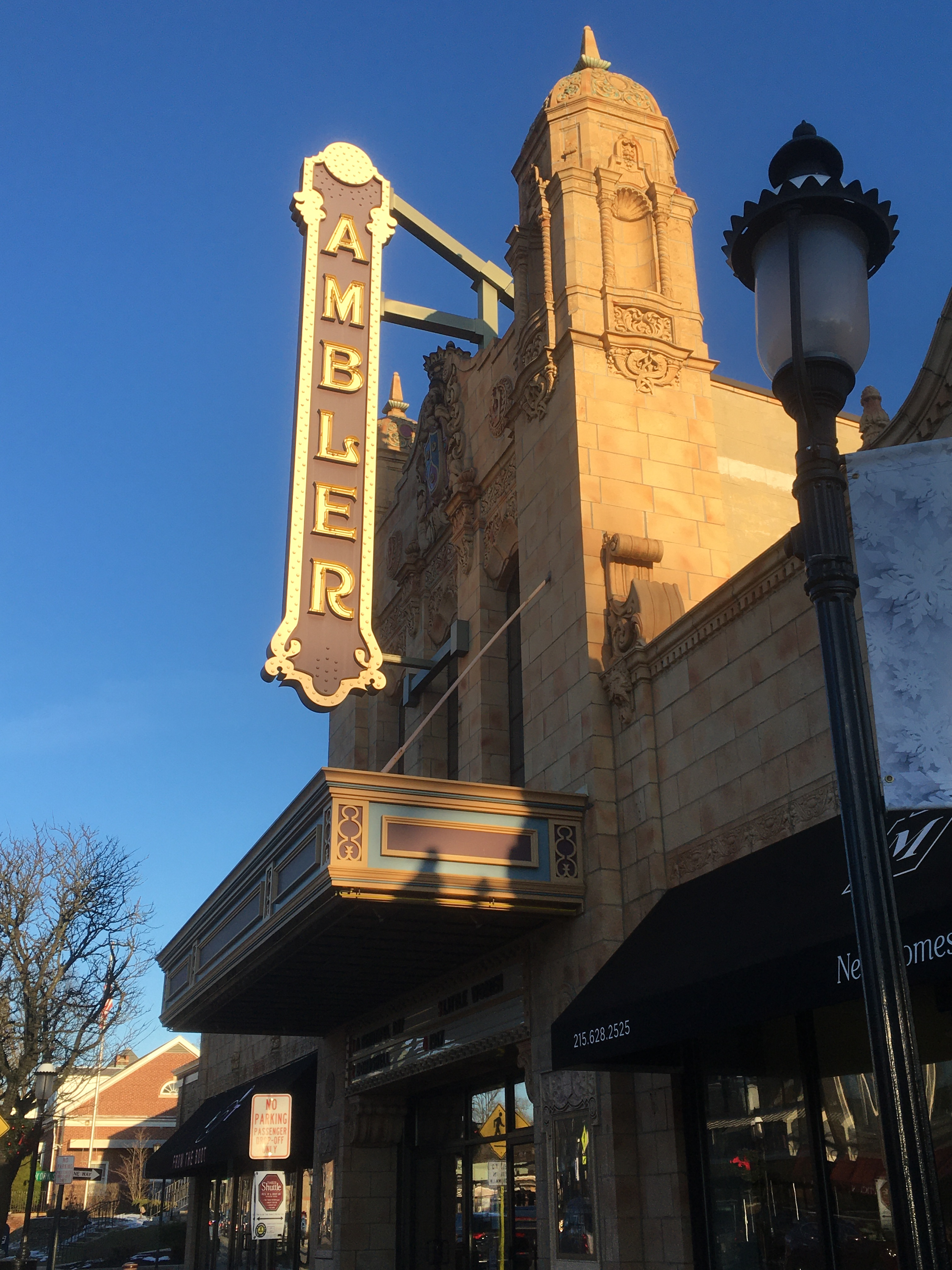 Exterior photograph of the non-profit Ambler Theater in Ambler, Pennsylvania with sign, marquee, and other elements of art deco style.